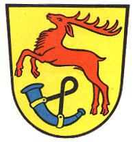 Coat of arms of the municipality of Bockhorn